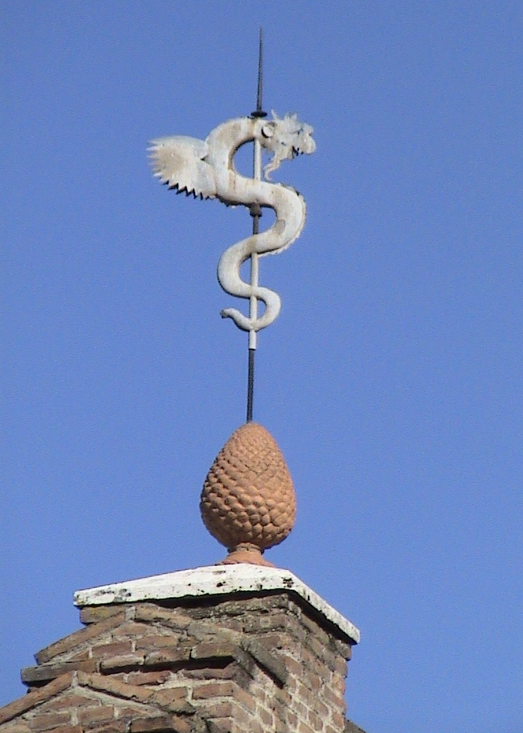 Exterior decoration of the Laredo Palace in Alcalá de Henares (Community of Madrid - Spain).